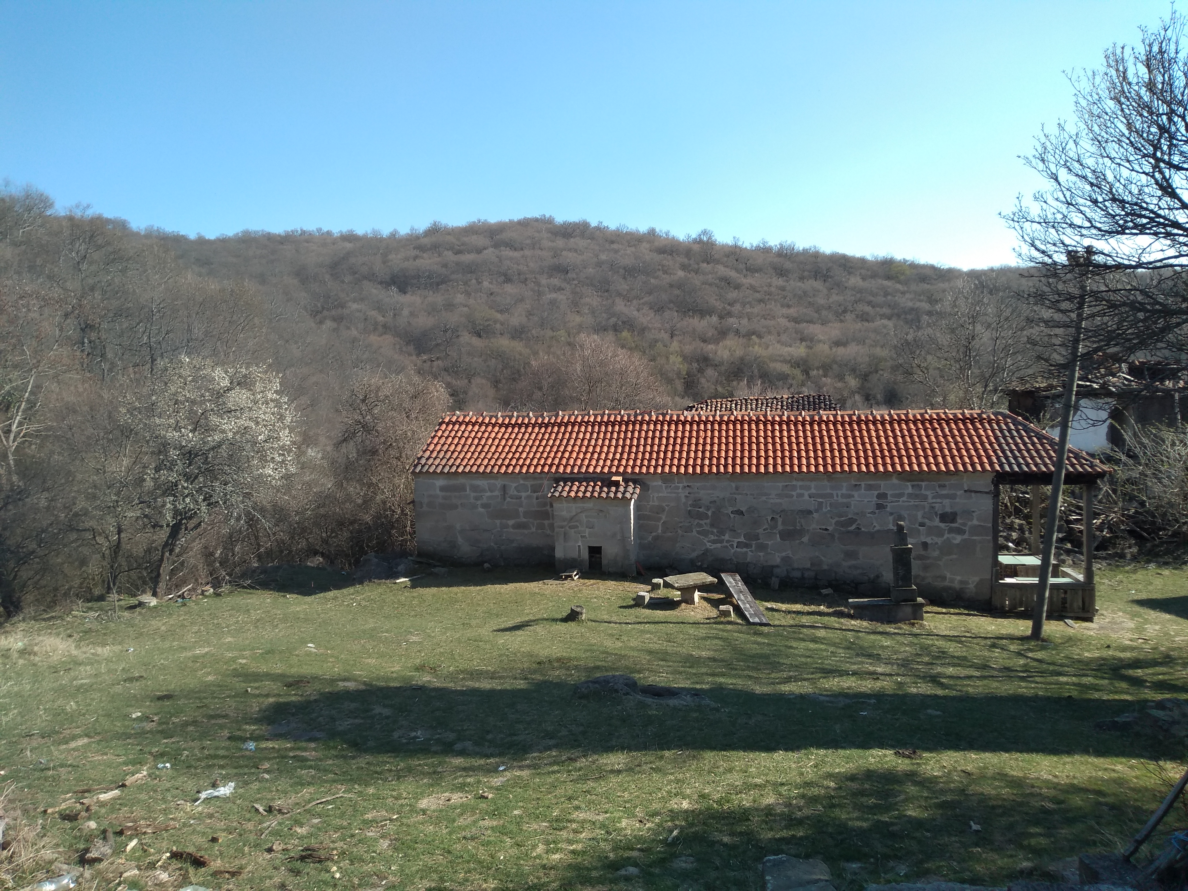 Karpino Monastery in Kumanovo Region, Macedonia